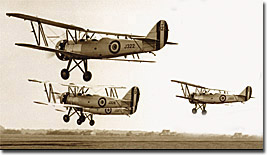 The first three Egyptian REAF planes flight